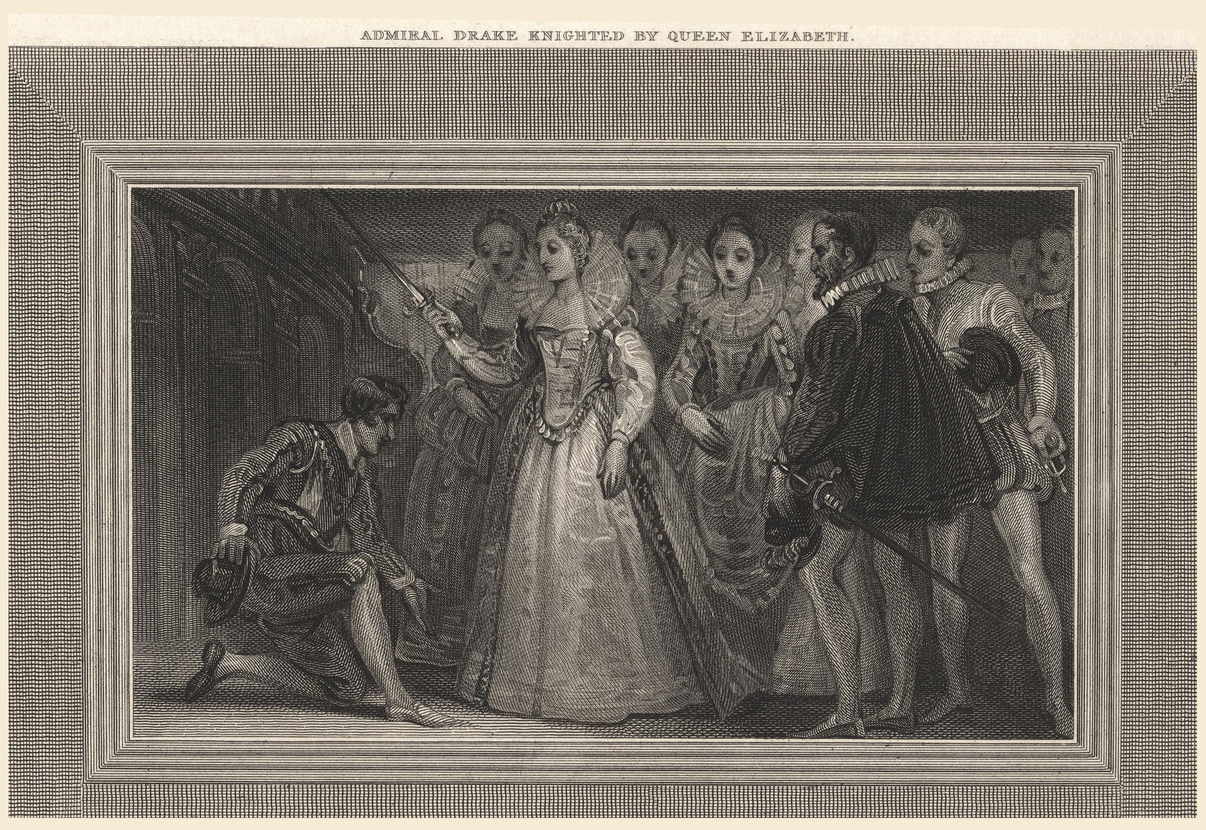 Admiral Drake knighted by Queen Elizabeth' (Sir Francis Drake), by unknown artist. All images in this batch have an unknown author, but there is strong evidence it was first published before 1923 (based mainly on the NPG's estimated date of the work).